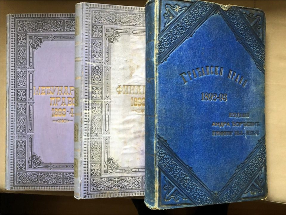 Textbooks used in The Great School (Velika škola), the highest educational institution in Serbia between 1863 and 1905. Textbooks are from 1893-1894 and can be found in the Society for Culture, Art and International Cooperation Adligat in Belgrade, Serbia.